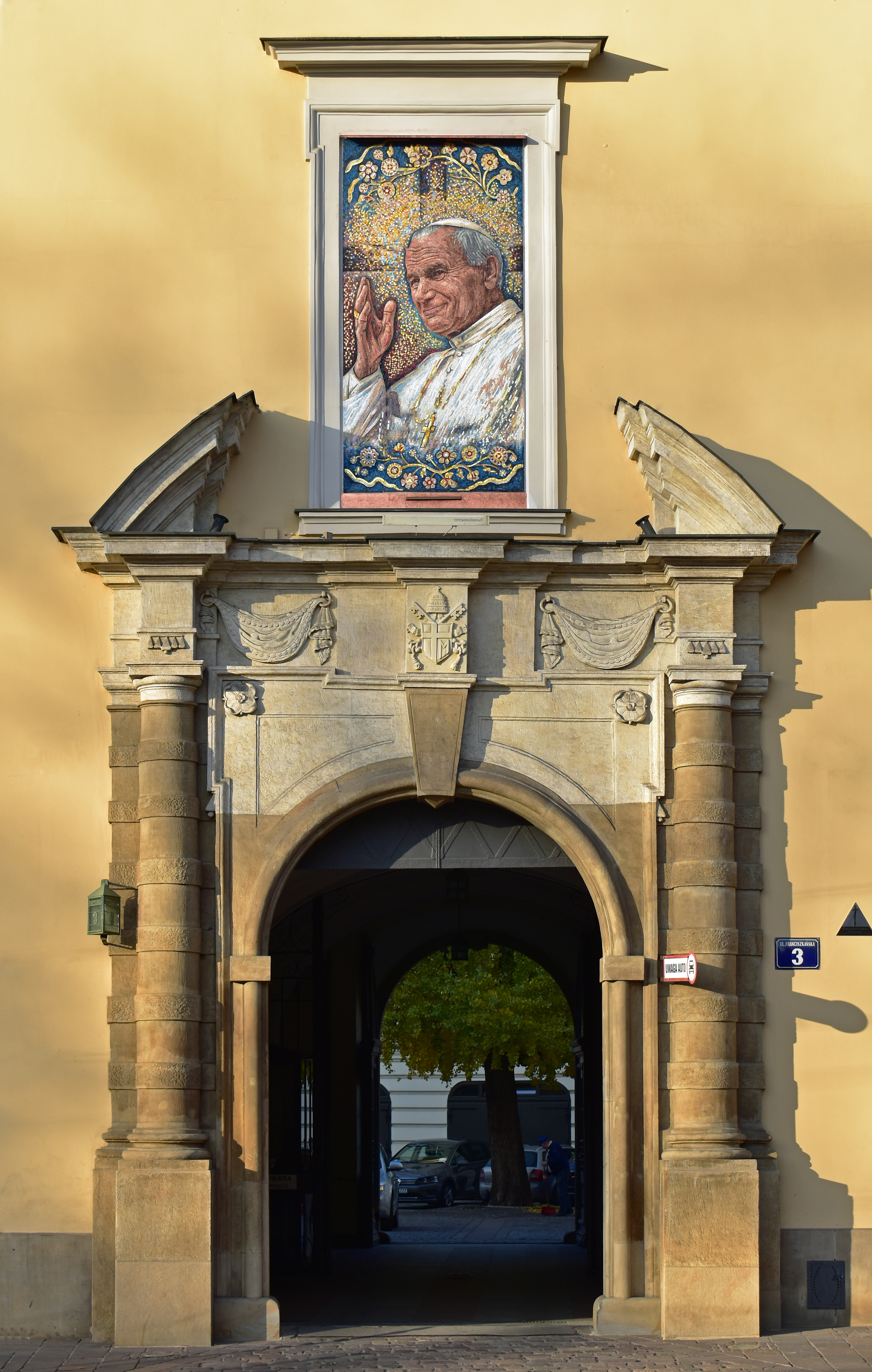 Bishops Palace, gate, mosaic (2018 designed by Magdalena Czeska), 3 Franciszkanska street, Old Town, Krakow, Poland